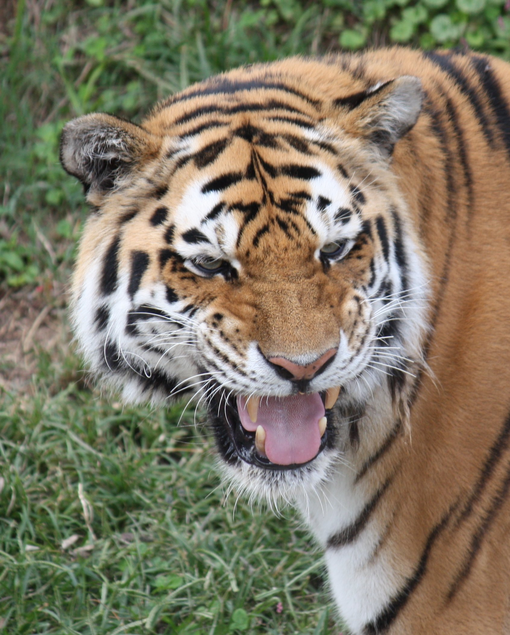 Amur Tiger Panthera tigris altaica at the Louisville Zoo